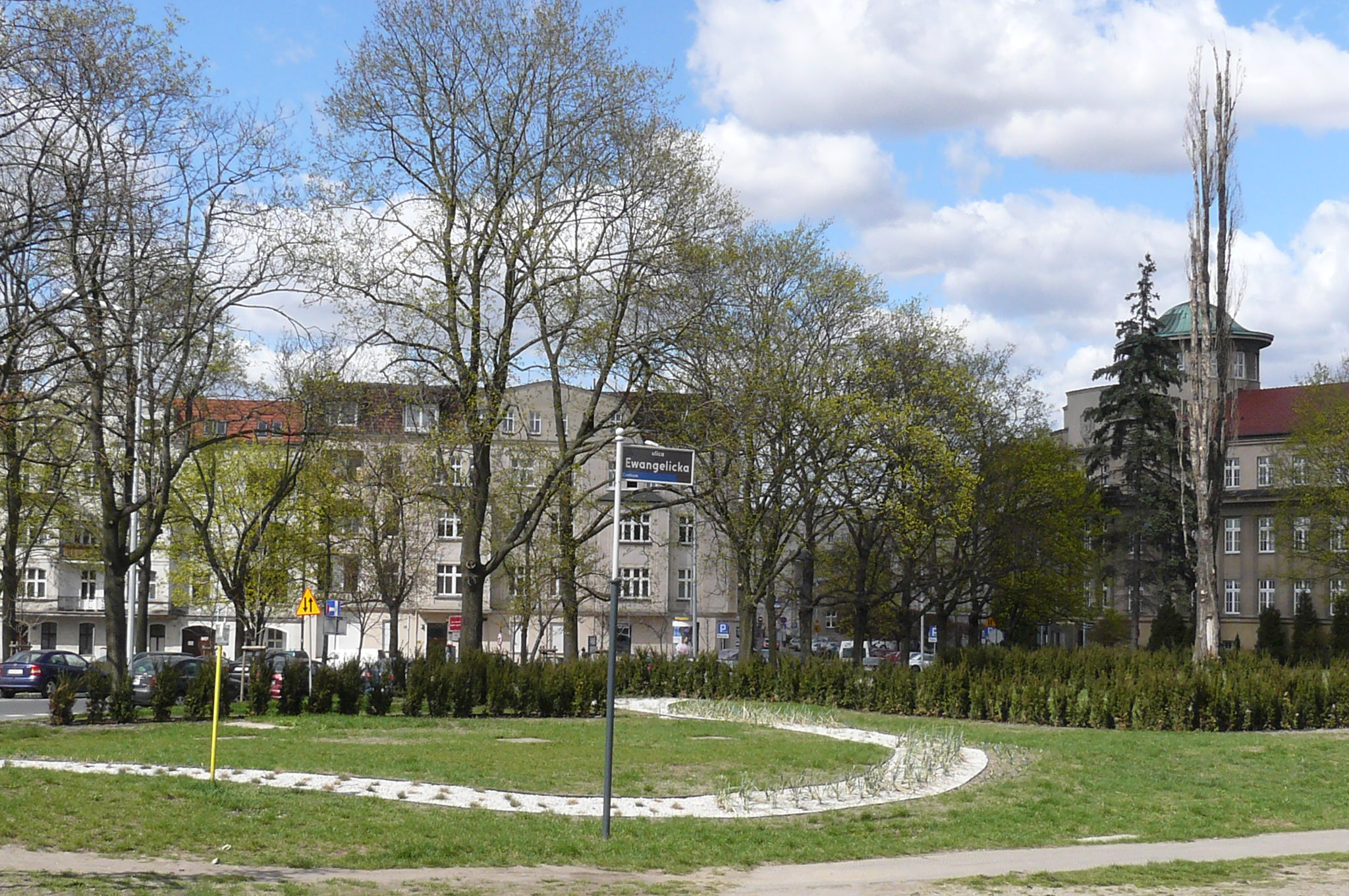 Lukasiewicza Square - Poznan.